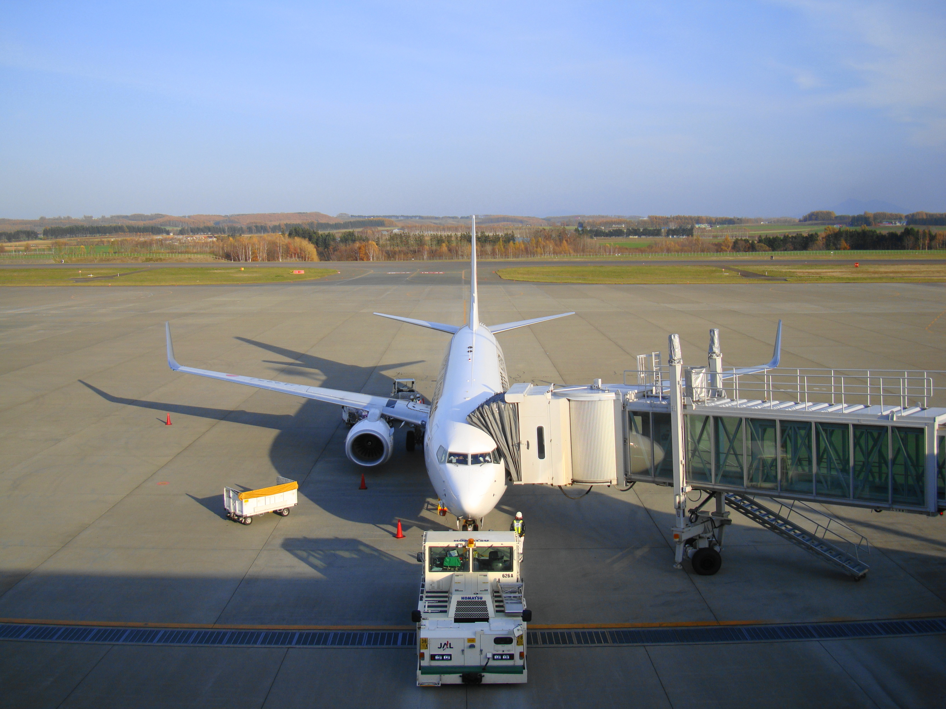 Japan Airlines(JAL Express) Boeing 737-800 JA337J